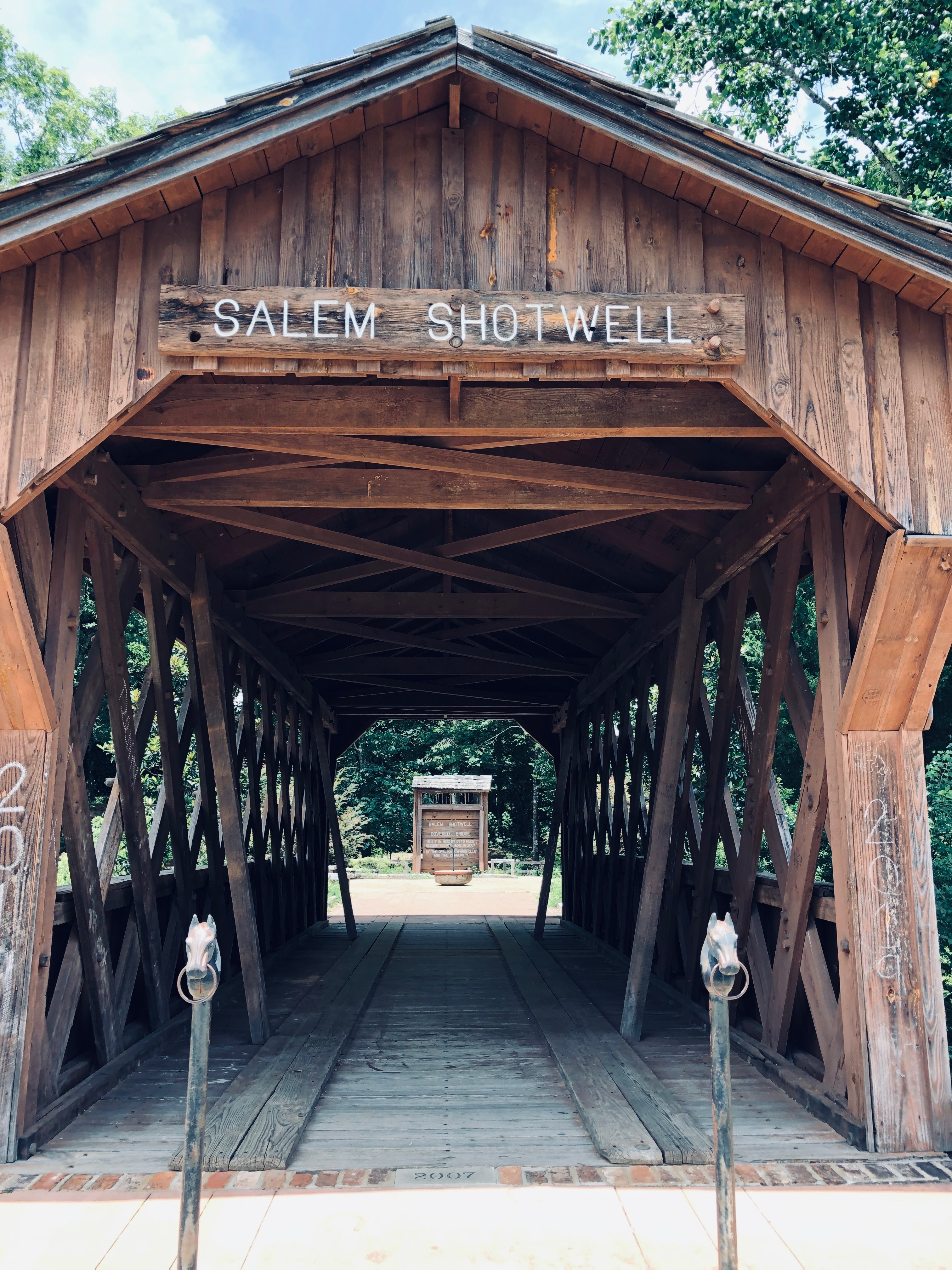 Salem Shotwell Covered Bridge